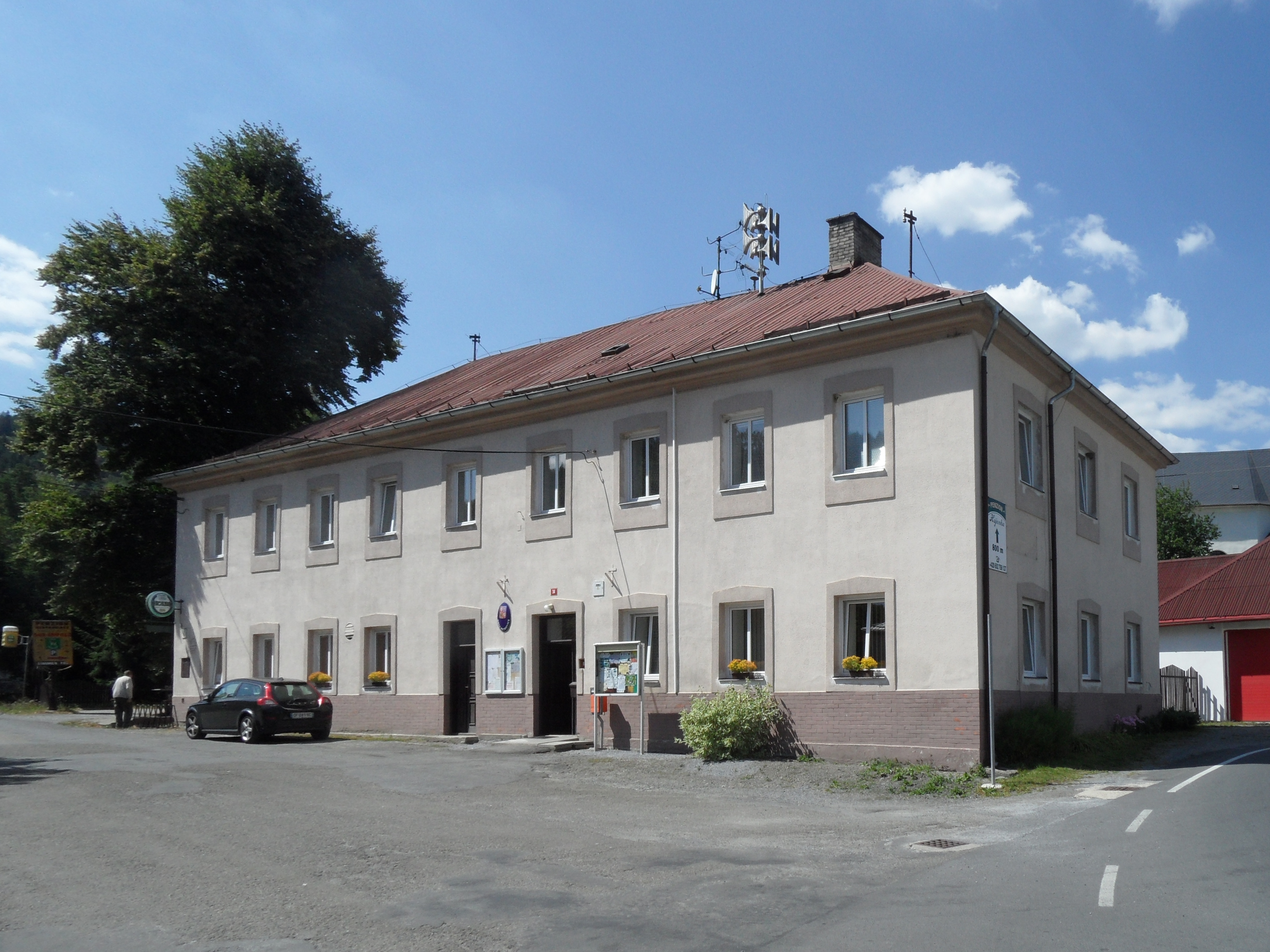 Petrovice (okres Bruntál) M. Building of Municipality Office and Restaurant. Bruntál District, the Czech Republic.